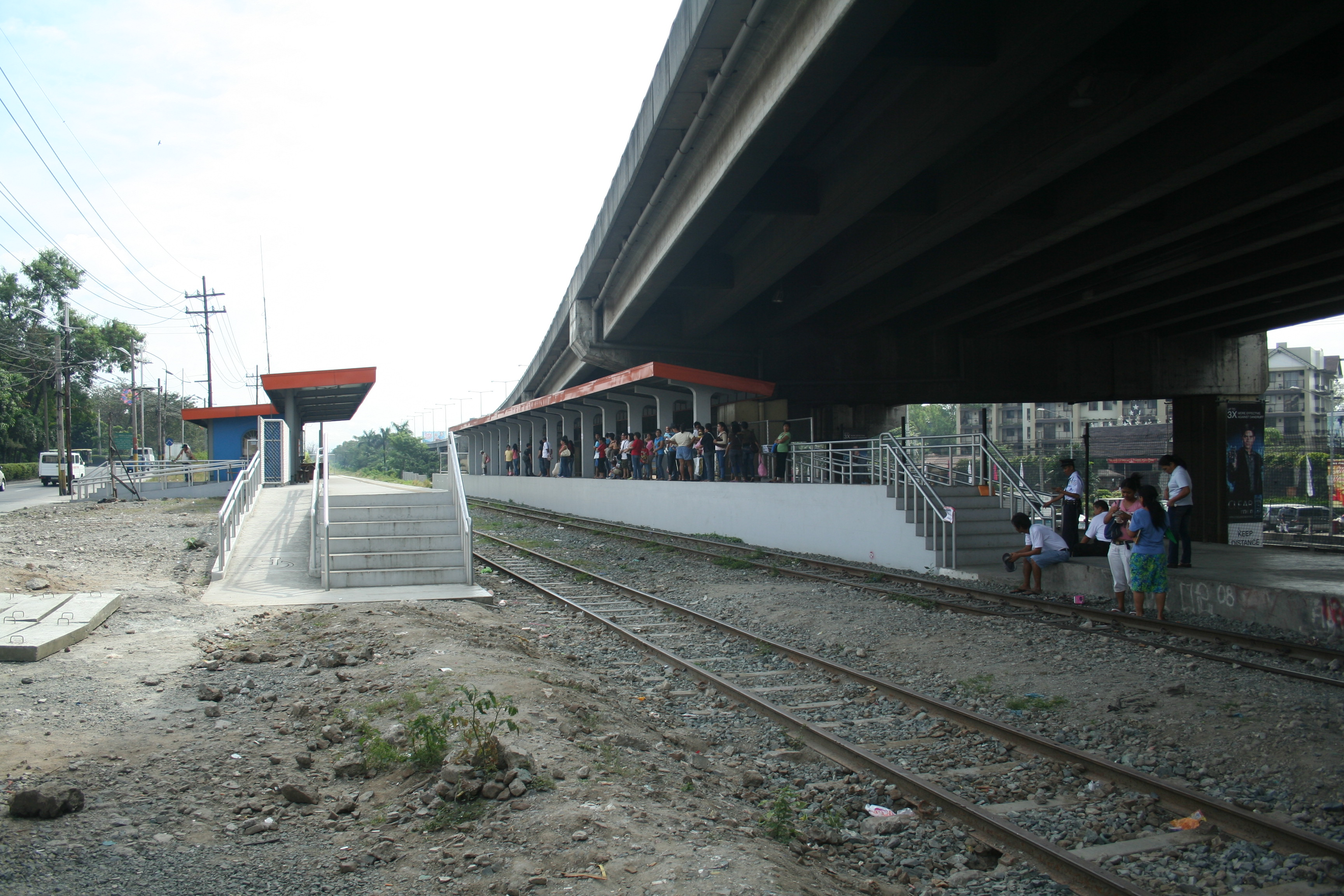 Exterior of FTI railway station.